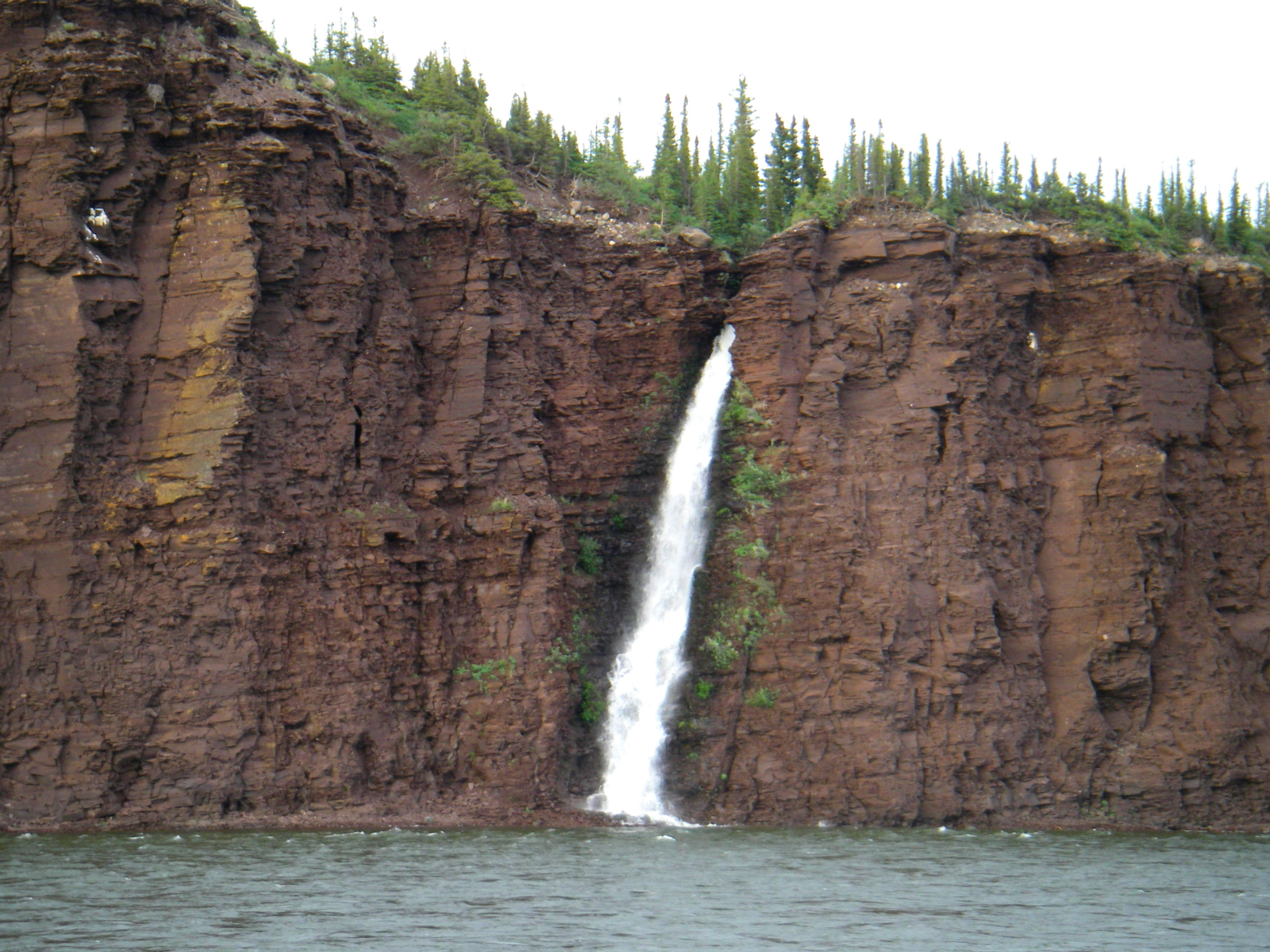 Small waterfall along Coppermine River, Nunavut